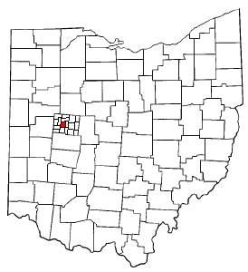 Adapted from Wikipedia's OH county maps. Created by SwissCelt.